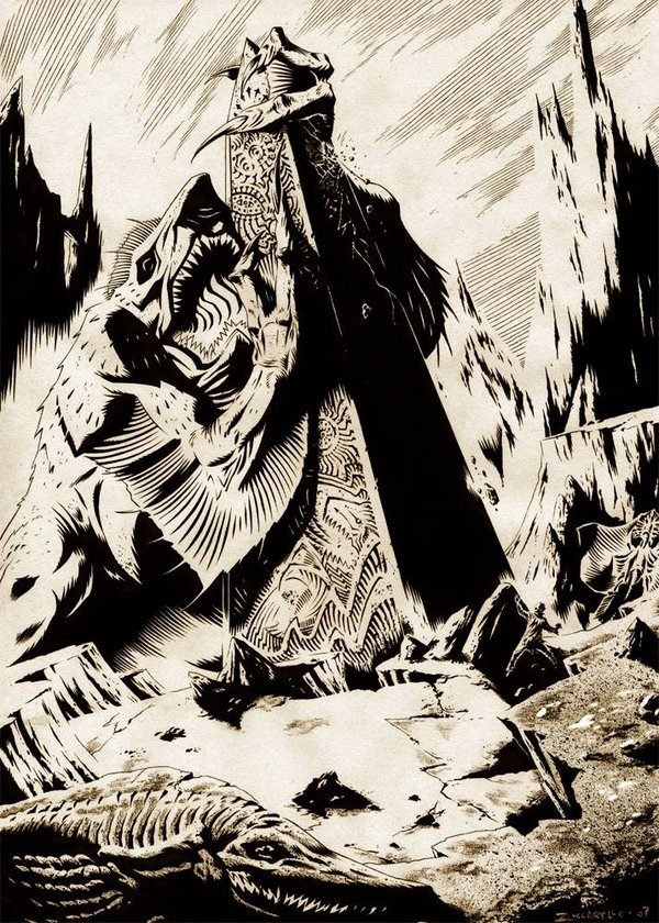 Dagon by Mario Zuccarello.